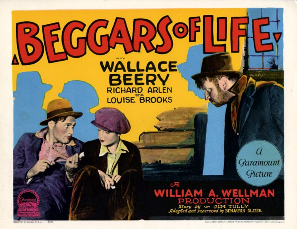 Poster for the 1928 film Beggars of Life. The item has no copyright markings on it as can be seen in the links above. At bottom left is Country of origin USA and some numbers which appear to pertain to the print job. At bottom right is This lobby display leased from Paramount Famous Lasky Corporation.